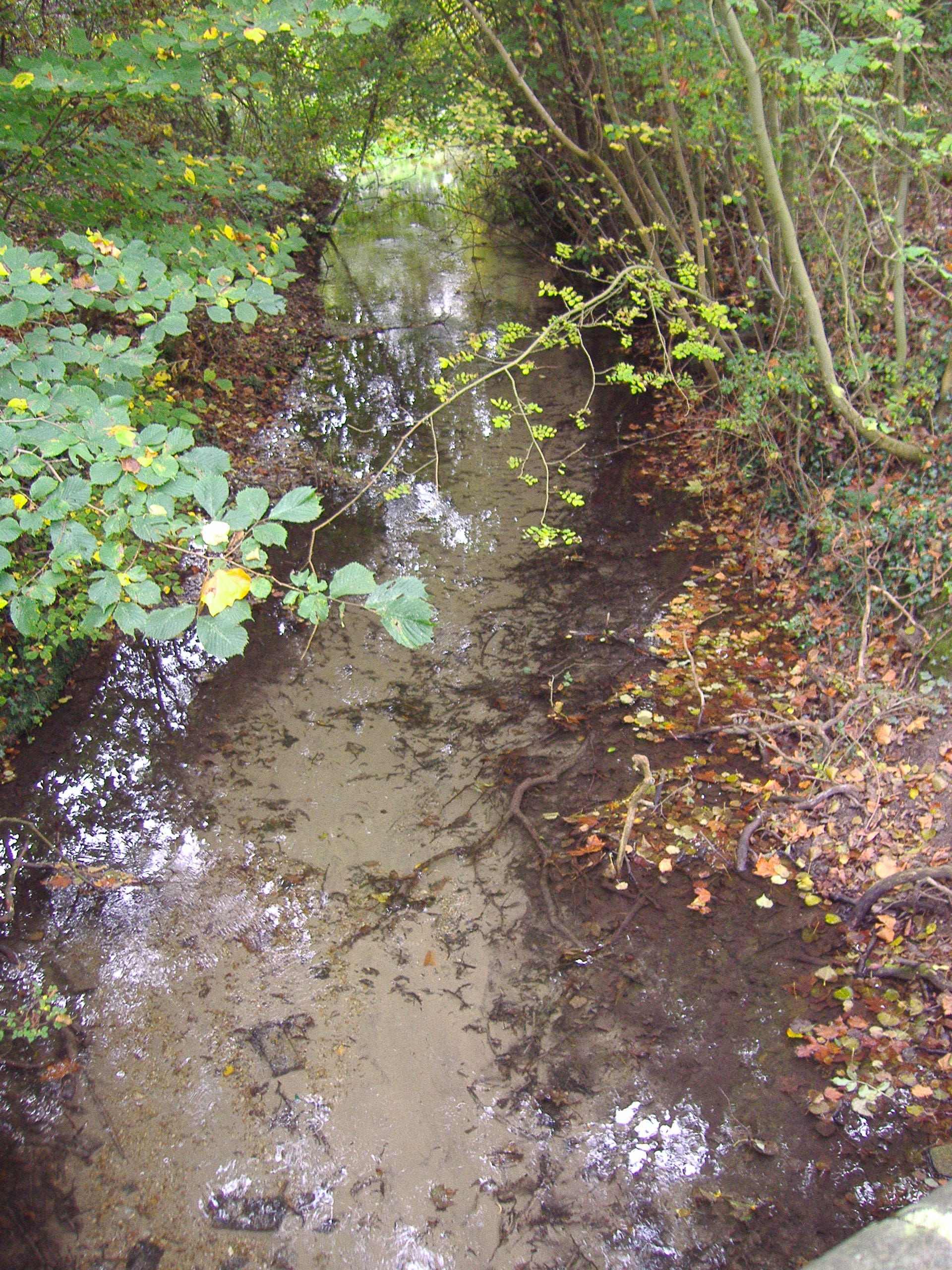 1The River Cong at Congham Lodge.